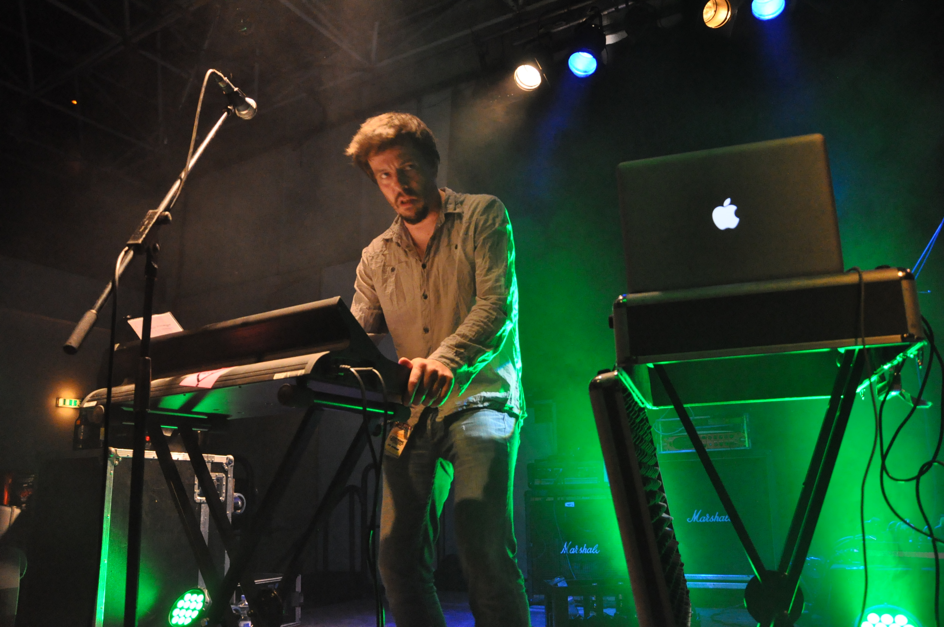 The German Electropunk band Egotronic at Kein Bock auf Nazis Festival, Düsseldorf 2013